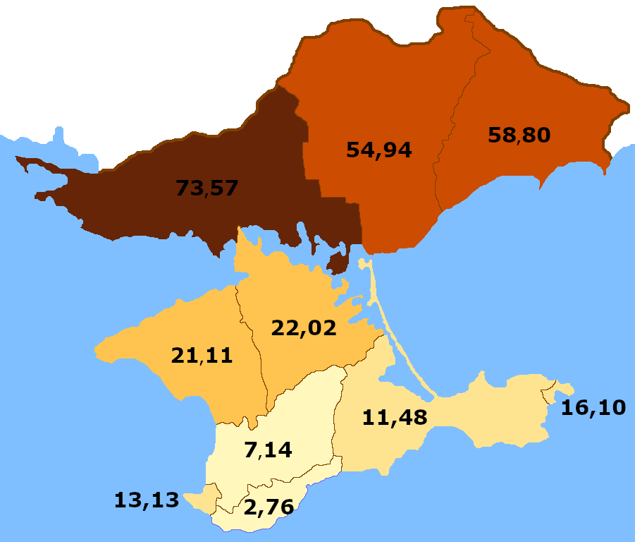 Ukrainian language in Tavria Governorate according to 1897 census.